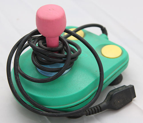 An image of a Powerplay Cruiser Joystick, popular in the 1980's for use with 8 bit computers. This is the pastel coloured model.